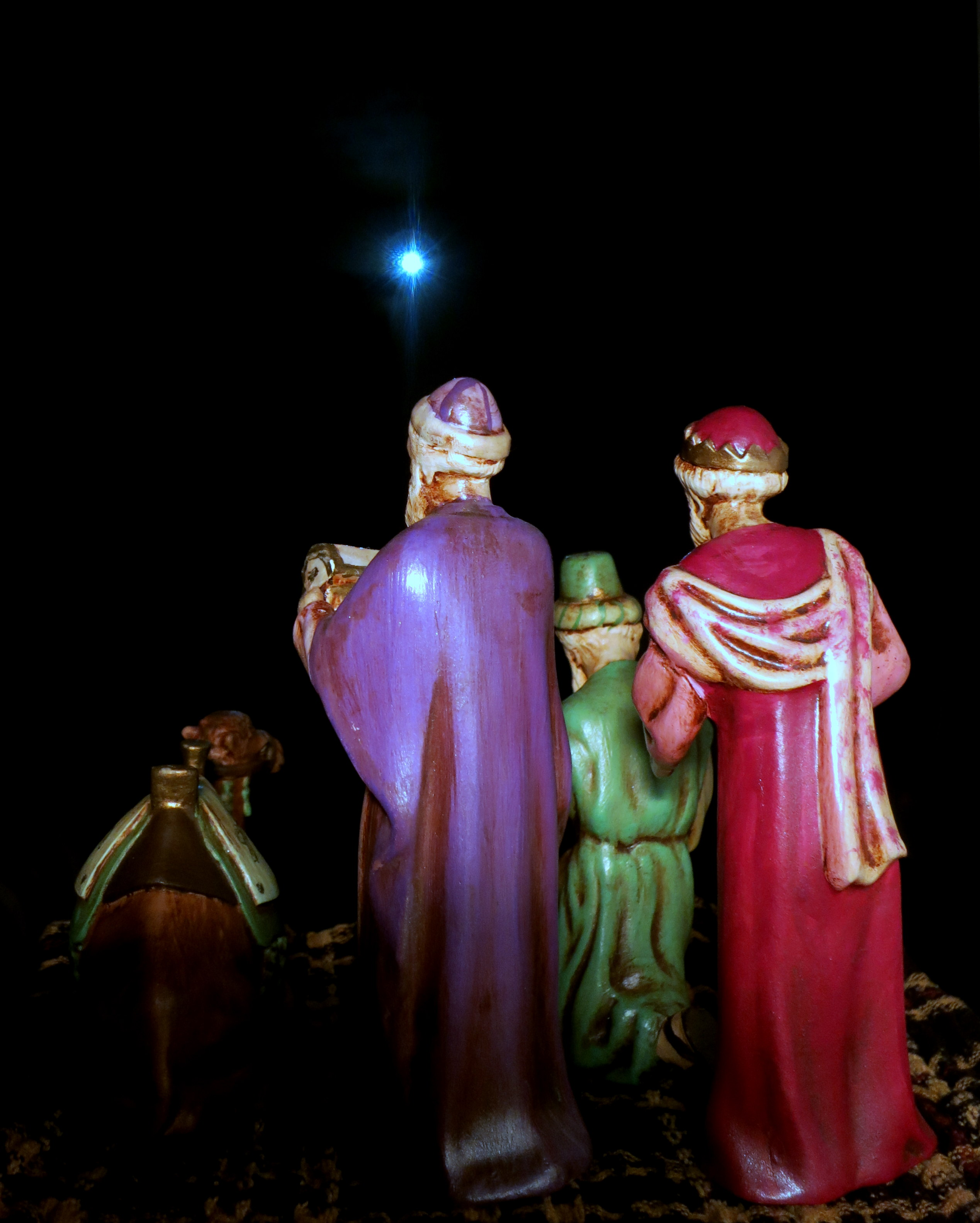 "[The Magi] having heard the king, went their way; and behold the star which they had seen in the east, went before them..." This photo was created with a Nativity set in a darkened room.